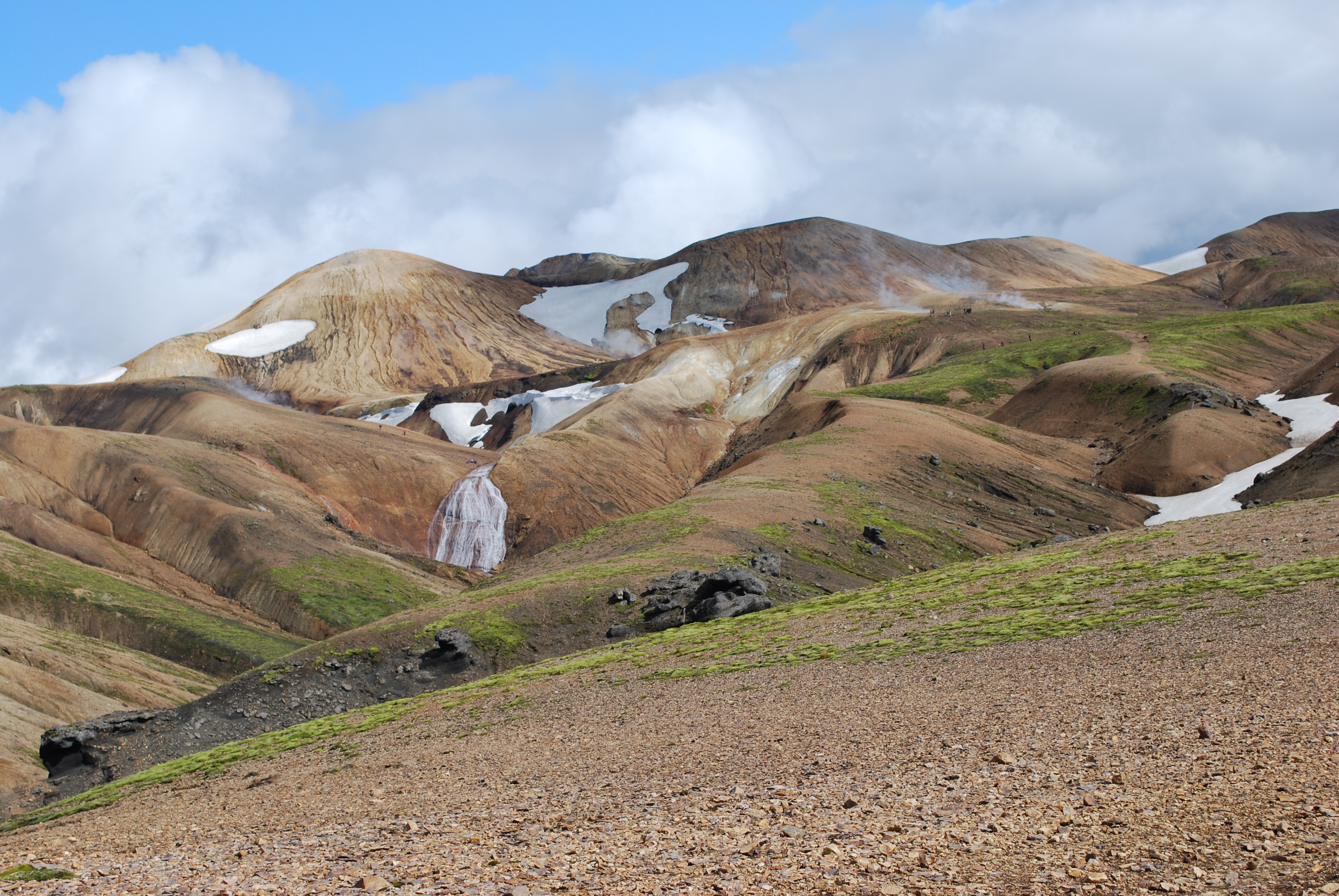 Kaldaklofsfjöll mountain range during path to Landmannalaugar, Iceland